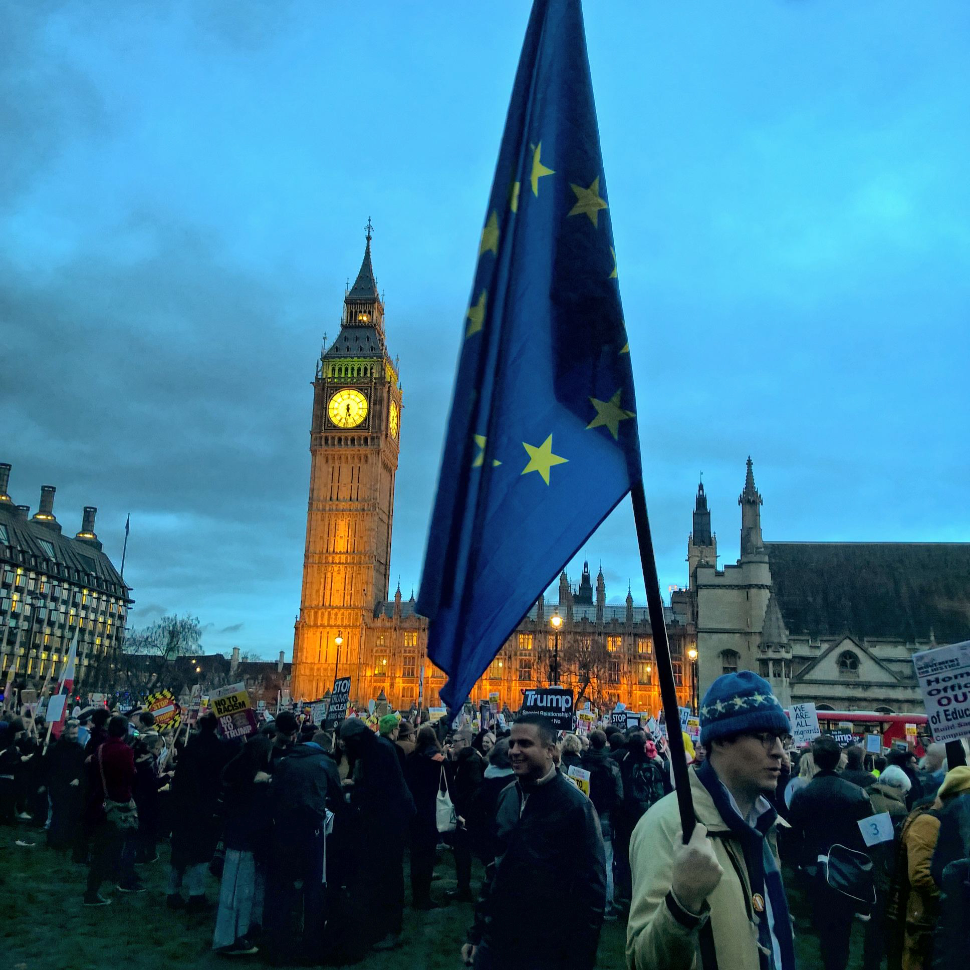 Photos taken at the Stop Trump rally at London's Parliament Square on Monday 20th February 2017.